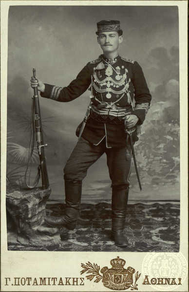 Greek revolutionary Simo Stoyanov from Armensko